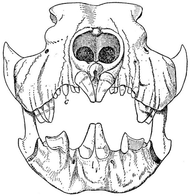 Front view of Skull of Thylacoleo carnifex, restored.